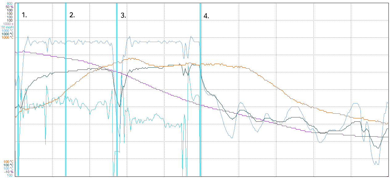 regeneration process of a diesel particulate filter without additive in a Volkswagen 2008 1.9 TDI with pump-injectors Legend: red: additional diesel injection mass green: filter load skin: exhaust gas temperature before filter turquoise: exhaust gas temperature after filter brown: exhaust gas temperature before turbocharger Stages: start of the regeneration by igniting the carbon inside the filter with heated exhaust gas via additional diesel injection after the main combustion ignition of the exothermic burning inside the filter slightly less additional fuel is injected deceleration fuel cutoff resulting in increase of oxygen in the exhaust gas resulting in faster and hotter burning additional fuel injection is cutoff and the remaining ignited carbon-particulate matter burns away